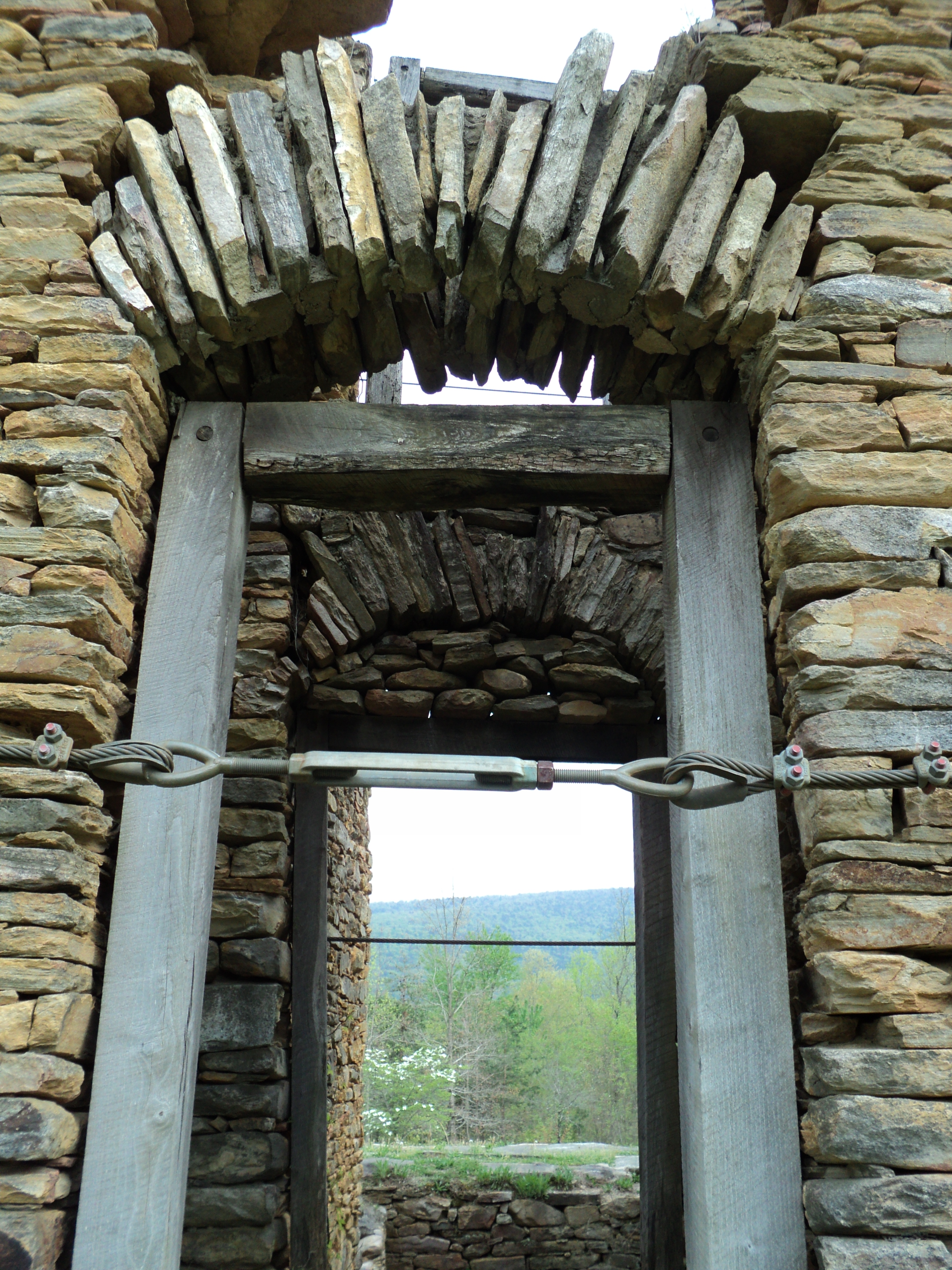 View of window in the Rock House, owned by the Stokes County (North Carolina) Historical Society. The massive four-story structure was bulit by Capt. 'Jack' Martin, pioneer and Revolutionary War soldier, and is today a ruin.